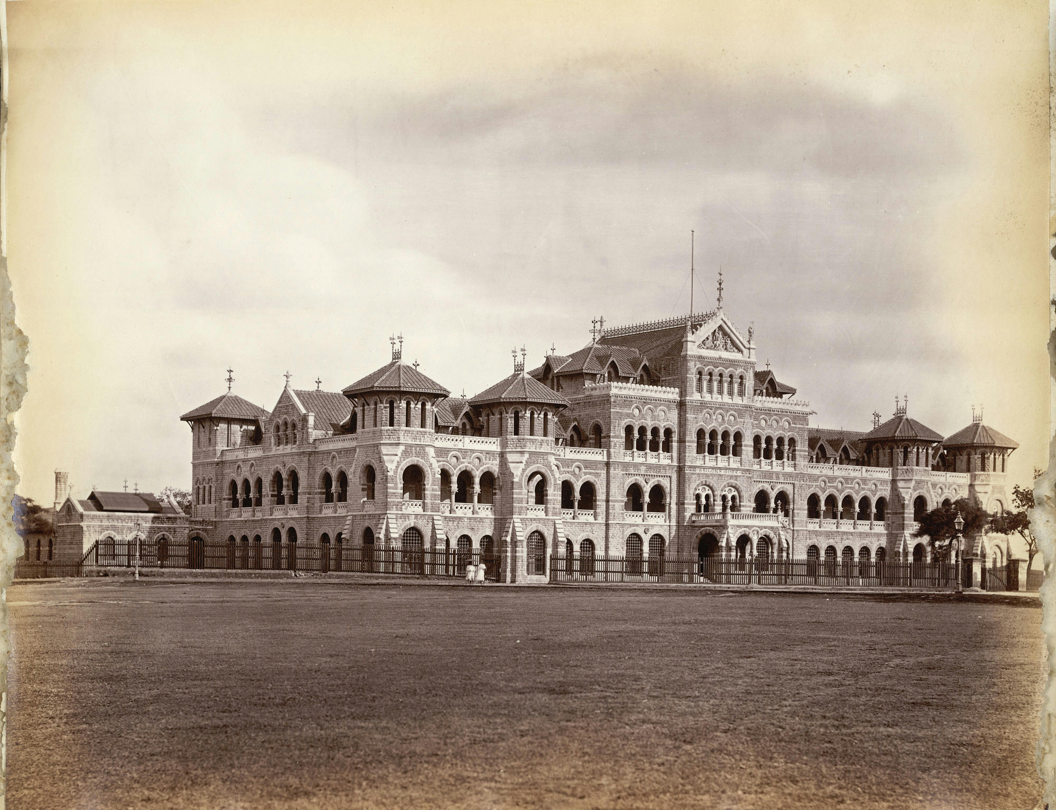 Royal Alfred Sailors' Home, Bombay 1870, designed by Frederick William Stevens (designer behind Victoria Terminus). Today, the building is the headquarters of Maharashtra Police